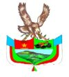 shield Aguada (Santander)